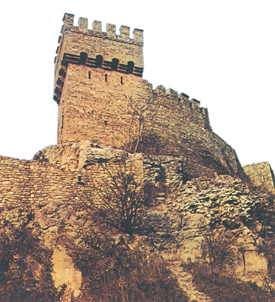 Remains of Balduinovata Tsarevets tower on the hill in Veliko Tarnovo.